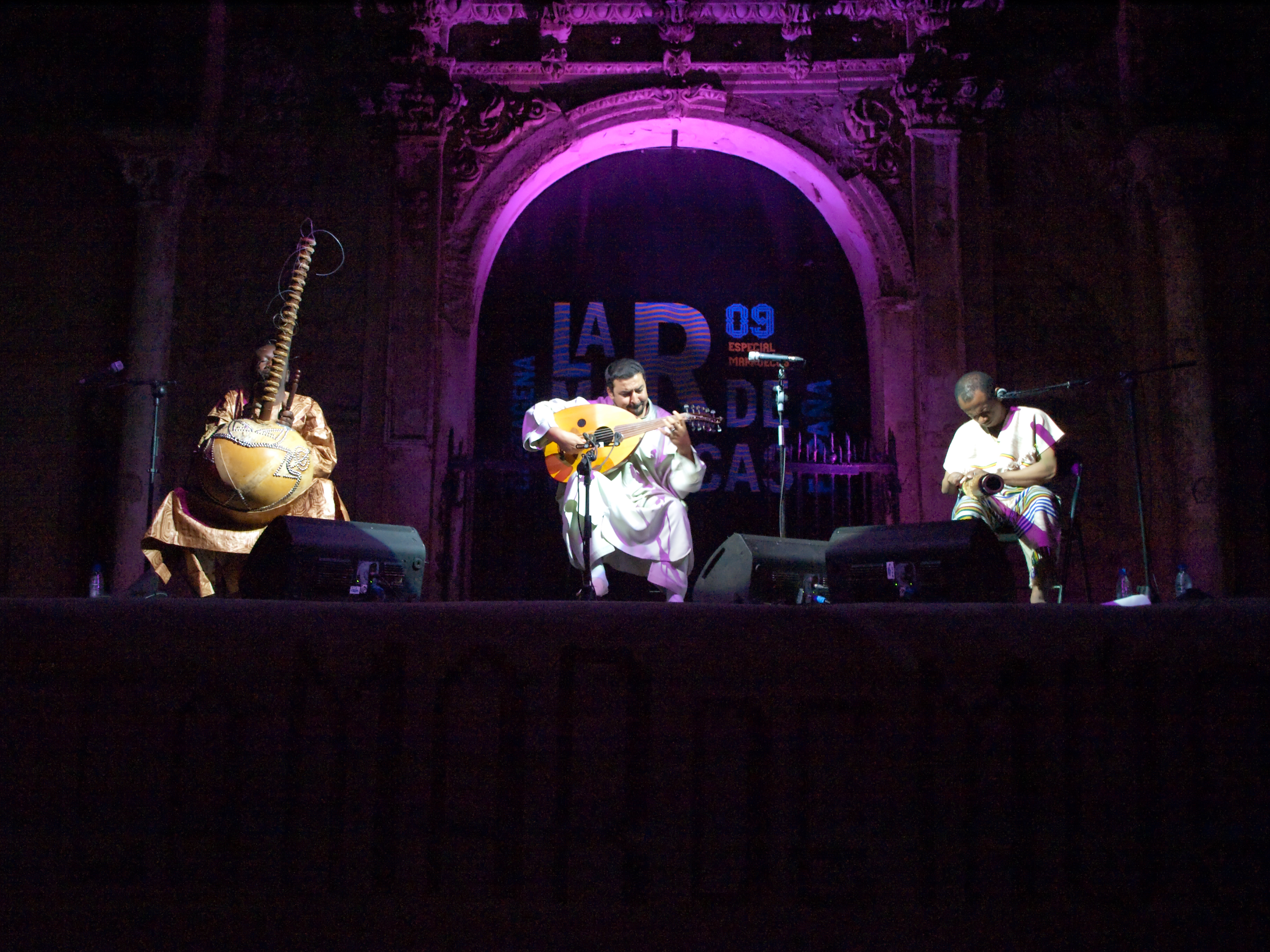 The 3MA (Driss El Maloumi, Rajery & Ballaké Sissoko) concert at La Mar de Músicas of Cartagena, 2009.